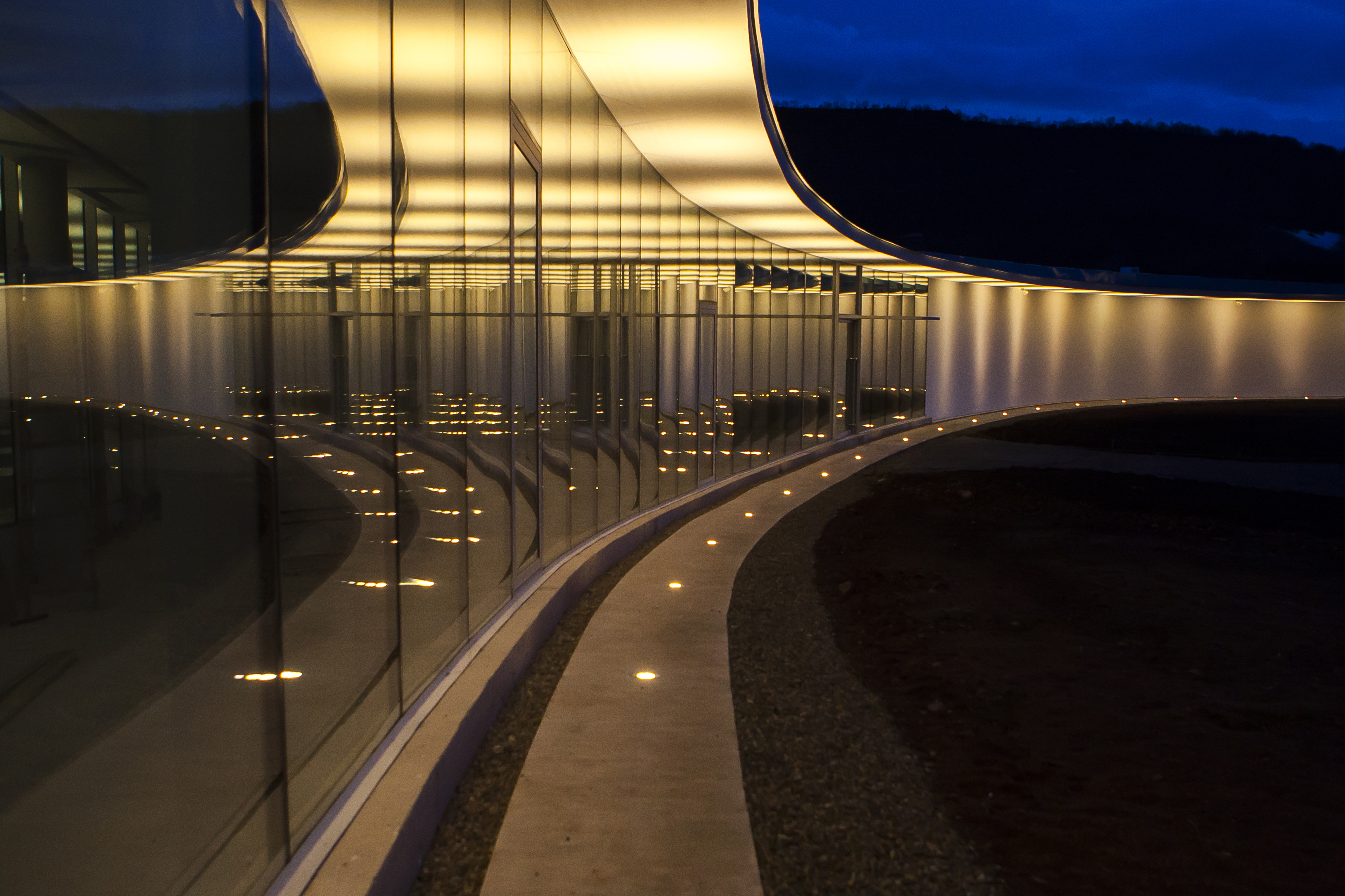 Innovative Center in the North of Armenia, Lori region that aims to be a model of rural advancement.